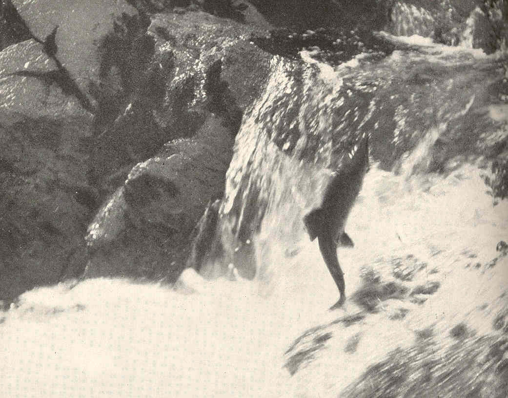 Humpback Salmon Ascending Low Falls, Litnik Stream, Afognak Island Subject: Pink salmon, Litnik Stream (Afognak Island, Alaska), Waterfalls--Alaska, Salmon--Migration Geographic Subject: United States--Alaska--Afognak Island Tag: Fish